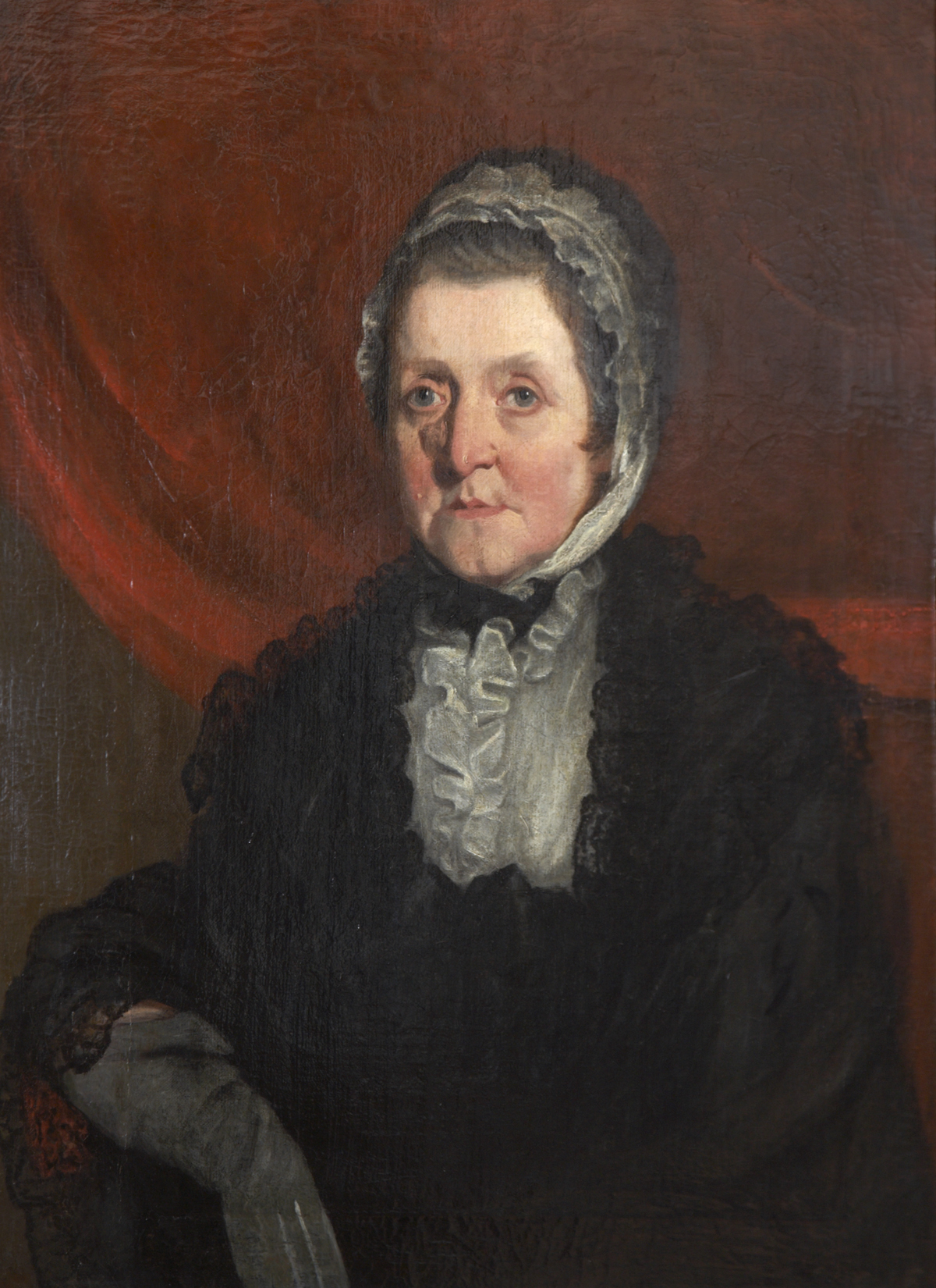 Portrait of Mrs Mary Palmer (1716-1794), by her brother Sir Joshua Reynolds